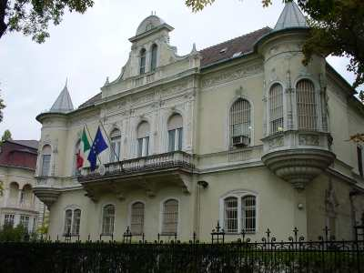 Embassy of Italy - Budapest